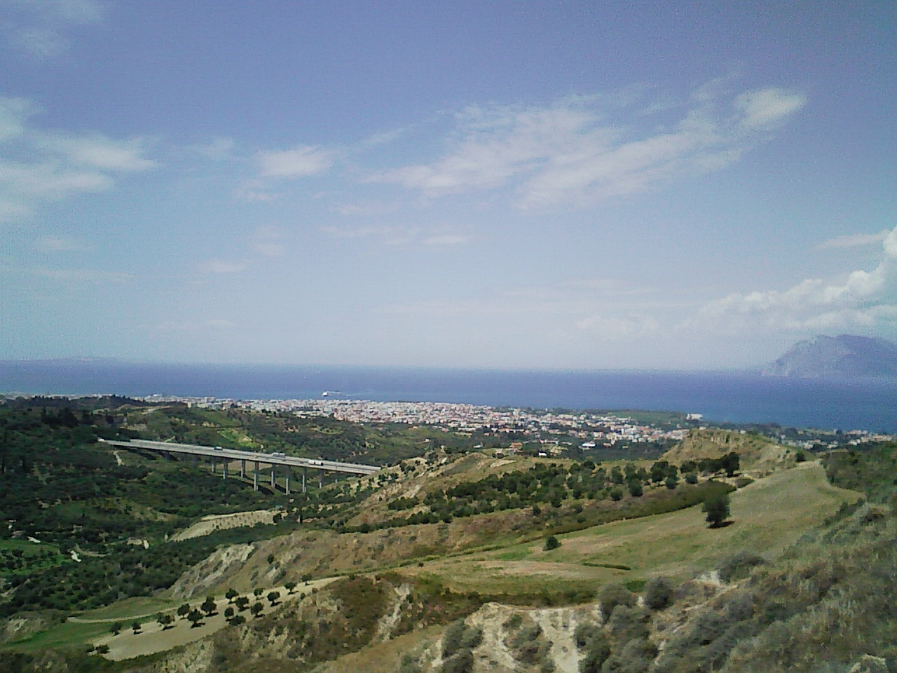 A viaduct of the Patras ring road, the swamp and district of Aguia.